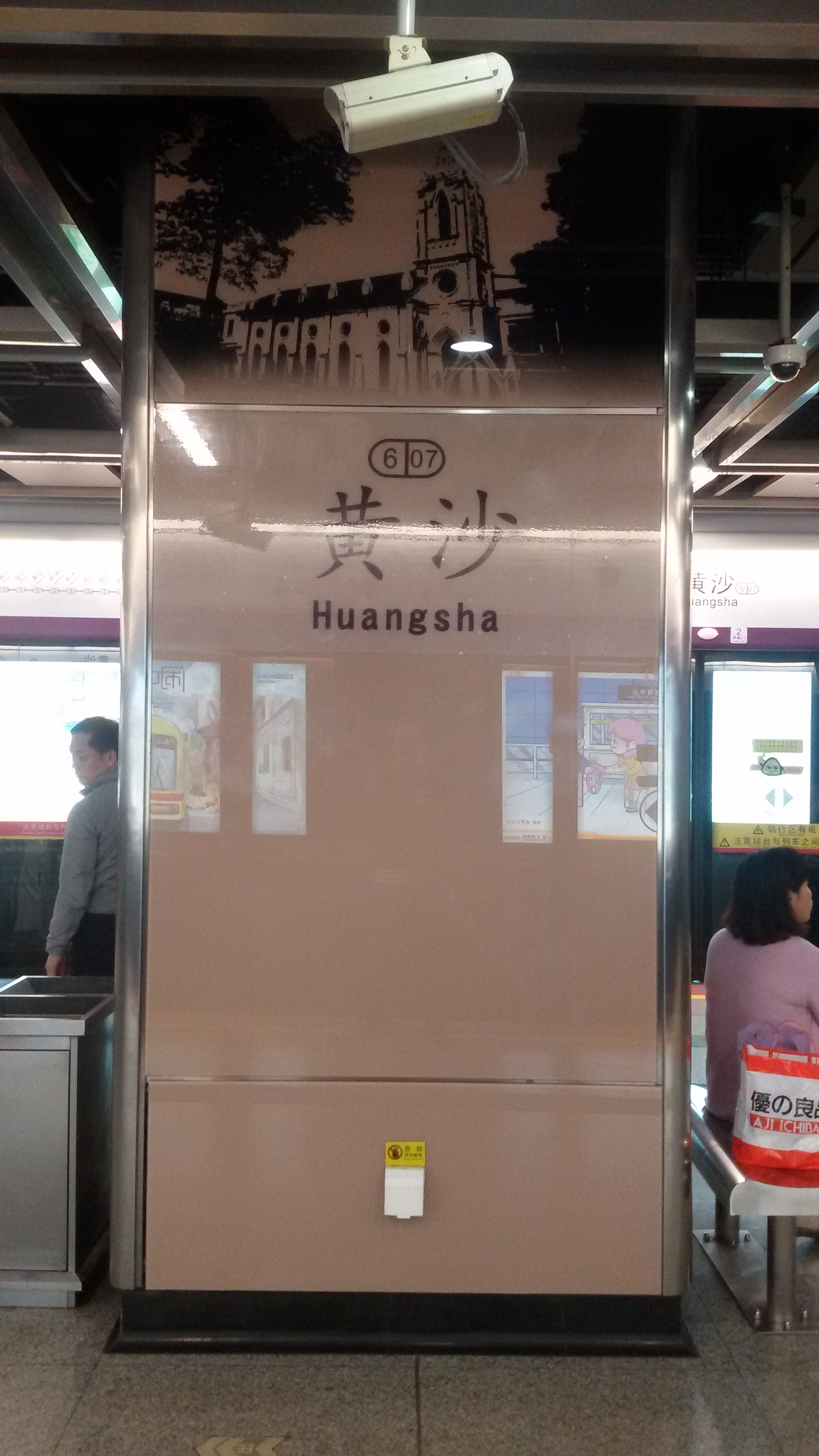 WORD on PILLAR for Huangsha Station in Line 6